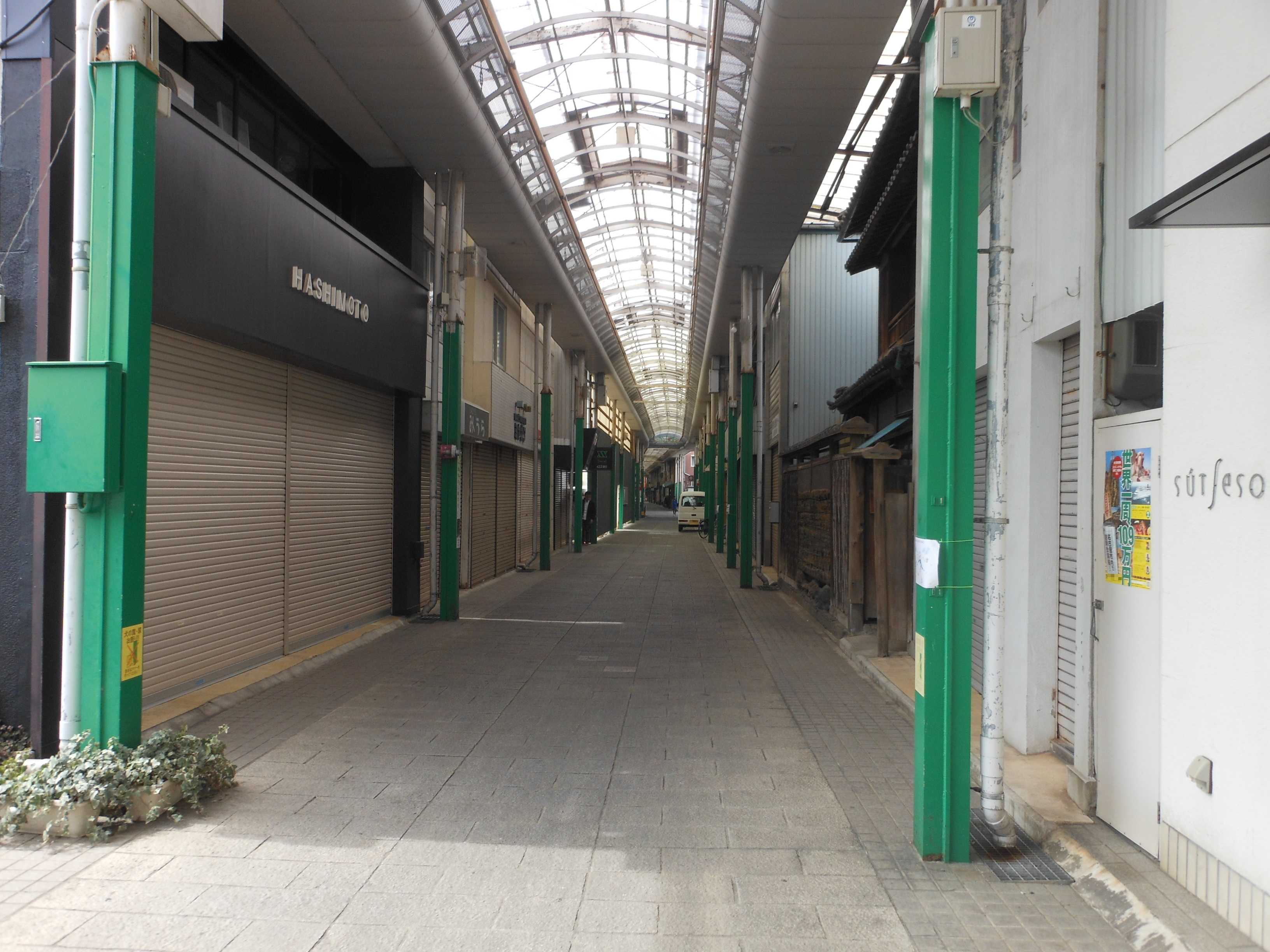 This is a scene in Ise Ginza Shimmichi Shopping Street, Ise, Mie, Japan.